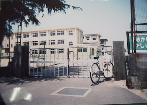 Komatusima Junior High Shool Old School building02